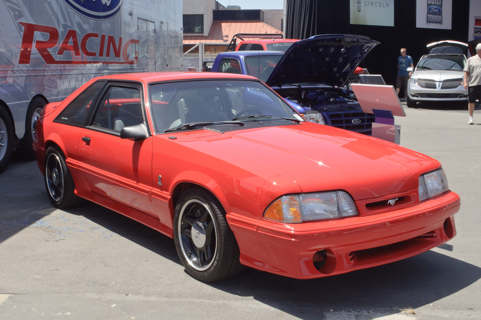 The Ford display at the Barrett-Jackson Auction. Ford's Special Vehicle Team built a number of high-performance modified versions of Ford's volume models over the years. The 1993 Cobra is one of the best known. It closed out the production of this particular generation of the Mustang (1979-1993) with a bang. Its relatively affordable high performance was well noted by enthusiasts and collectors. This particular Cobra is a race-ready Cobra R, with additional performance upgrades. Its engine was good for 235 horsepower and 280 pound-feet of torque. It was available only with red exterior and gray interior. Only 107 were built, and all were sold out before they were delivered to dealerships. At the test drive area, I could drive a brand-new 2012 Mustang GT with 5.0L engine, and/or ride shotgun with a professional driver in a Boss 302 Mustang. I did drive the GT, and appreciated both its power and its cornering on the test track.